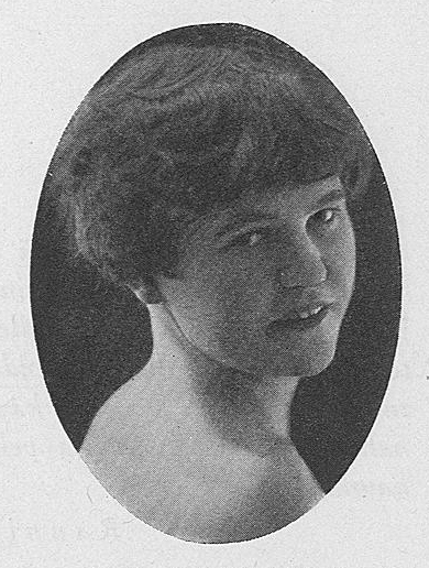 Finnish theatre personality, early 1930s.